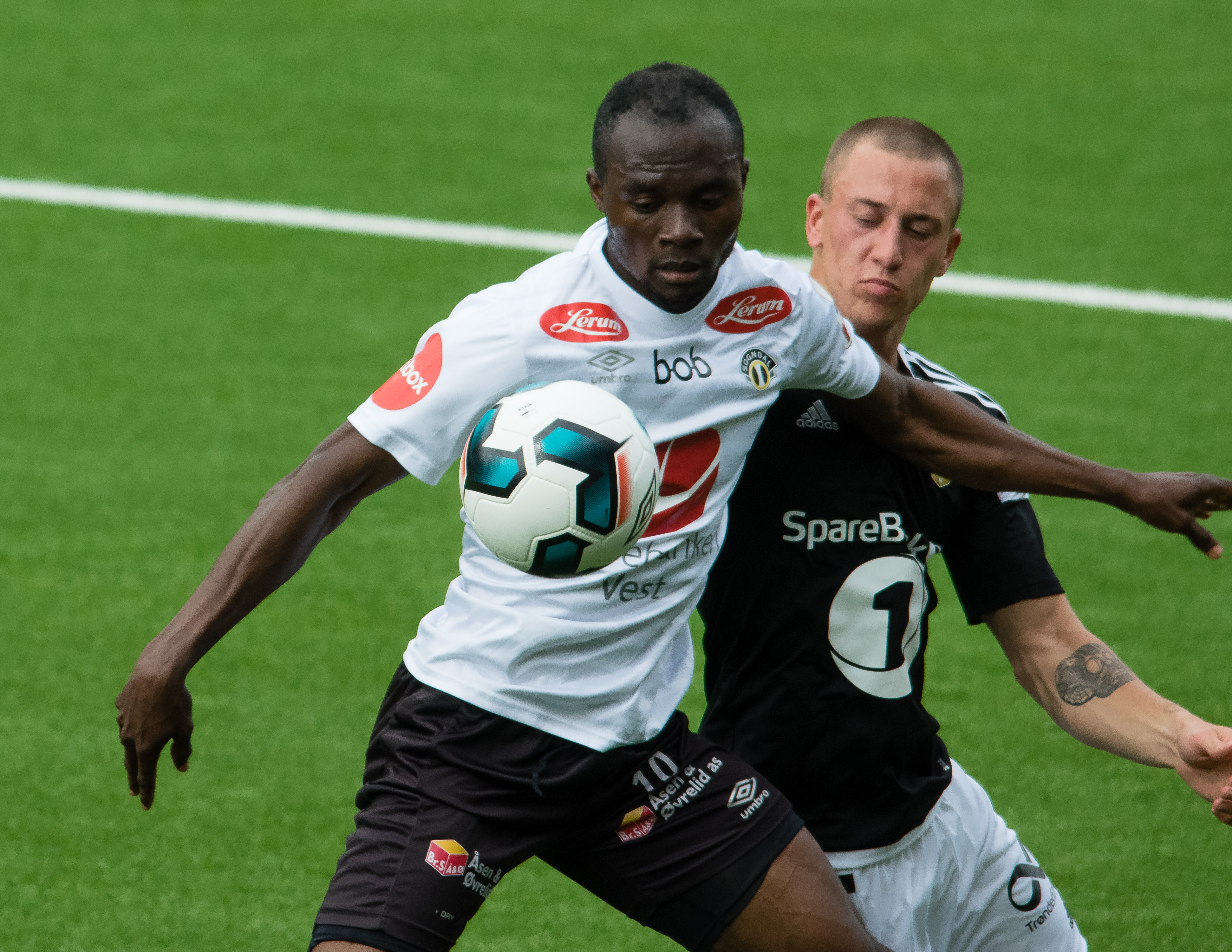 Gilbert Koomson (left) and Milan Jevtović, Sogndal-Rosenborg 07-15-2017.